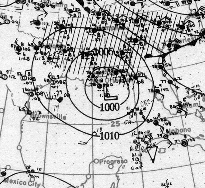 Surface weather analysis of the fourteenth storm of the 1916 Atlantic hurricane season approaching landfall on the U.S. Gulf Coast as a Category 2 hurricane on October 18, 1916.